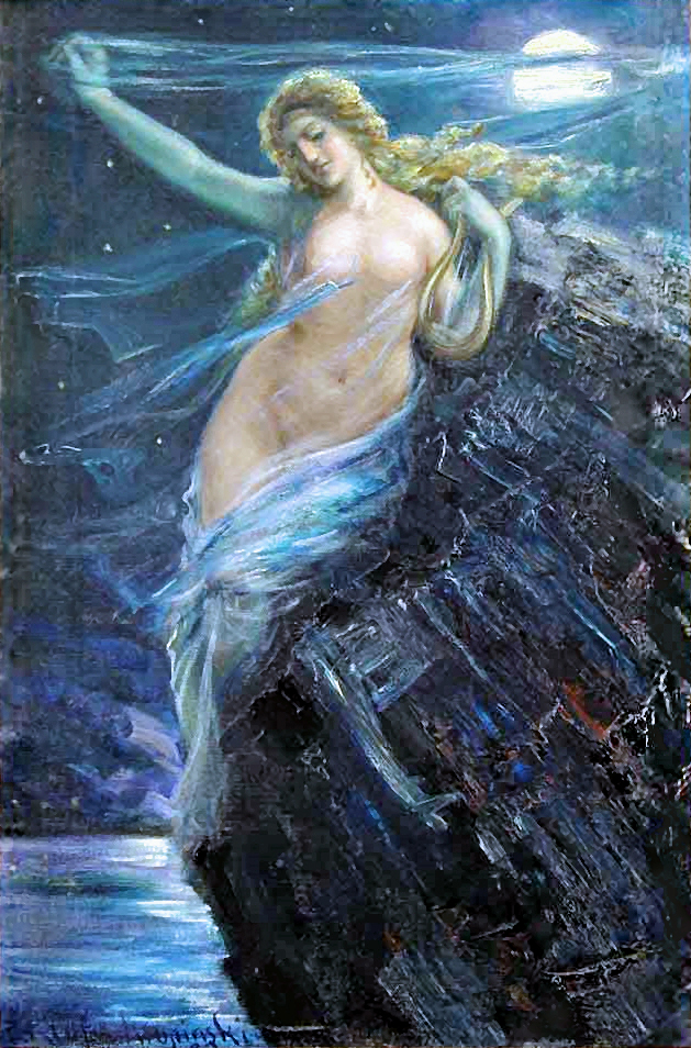 Loreley, 1899 Oil on canvas, 60 x 40 cm